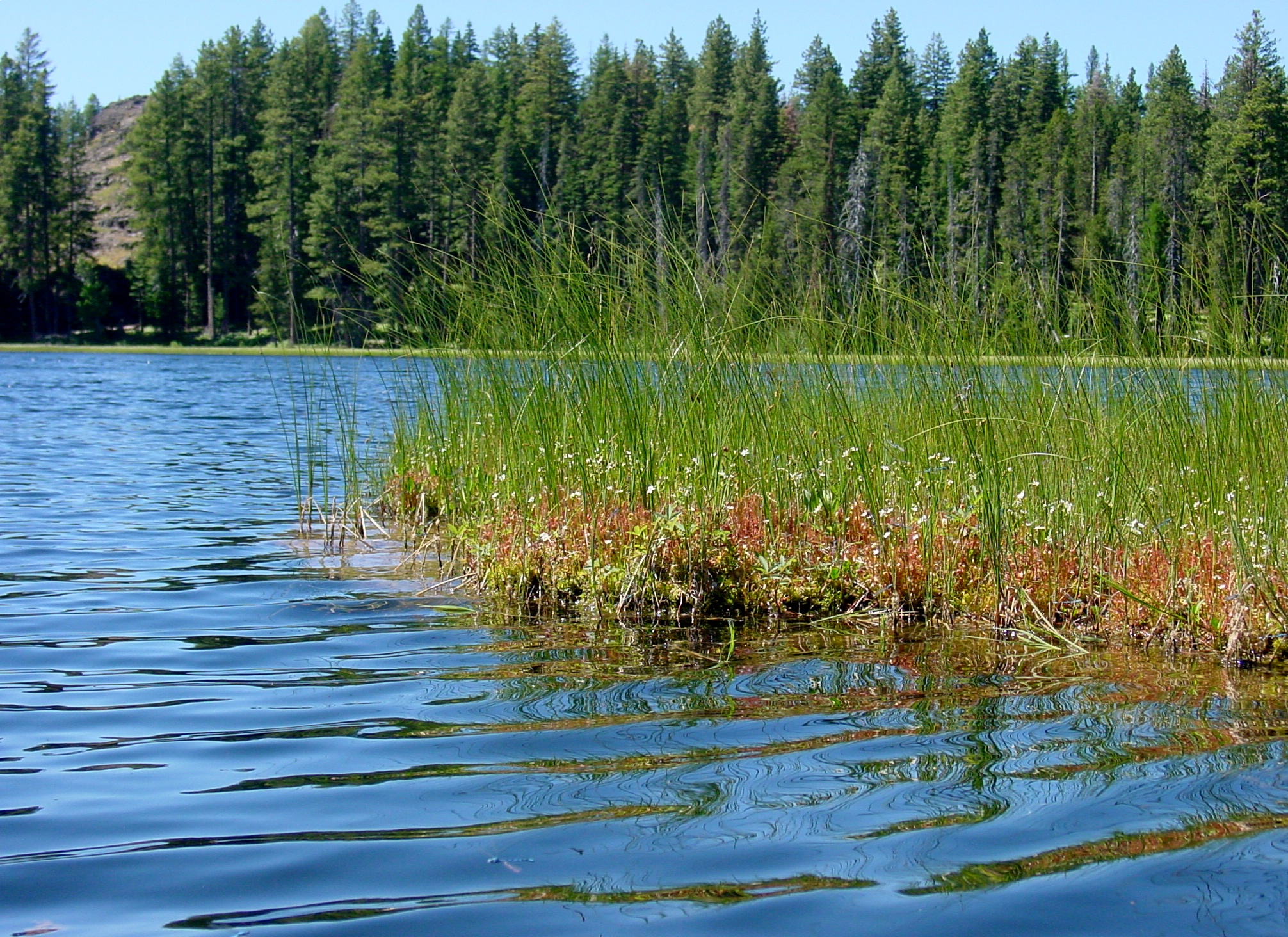 Description: Drosera anglica growing on a quaking bog on Duck Lake, OR Photo taken by: Noah Elhardt